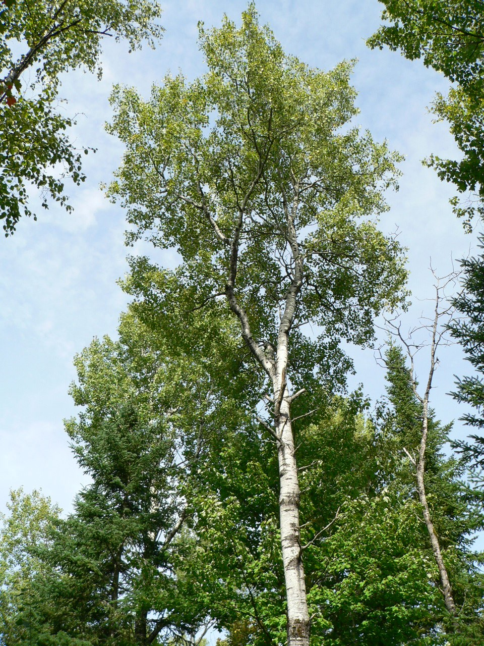 Mature trembling aspen (Populus tremuloides) in Quebec, Canada